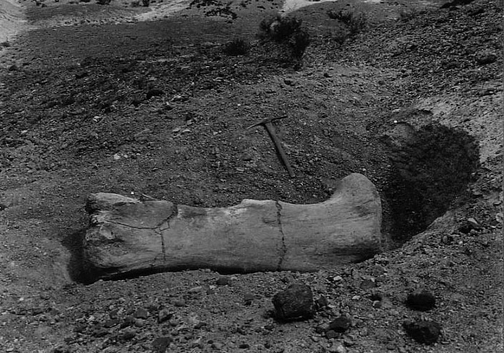 Argyrosaurus femur in situ, San Bernardo Hills. 1924. Name of Expedition: Captain Marshall Field Expedition for Vertebrate Paleontology Participants: Elmer S. Riggs, George F. Sternberg, John B. Abbott, Jose Strucco, C. Harold Riggs Expedition Start Date: 1922 Expedition End Date: 1925 Purpose or Aims: Geology Fossil Mammals that were probably distinct from other Northern Hemisphere Cenozoic fossils Location: South America, Argentina, Chubut, San Bernardo Hills Original material: 5x7inch glass negative Digital Identifier: CSGEO48941 Learn more about The Field Museum's Library Photo Archives.